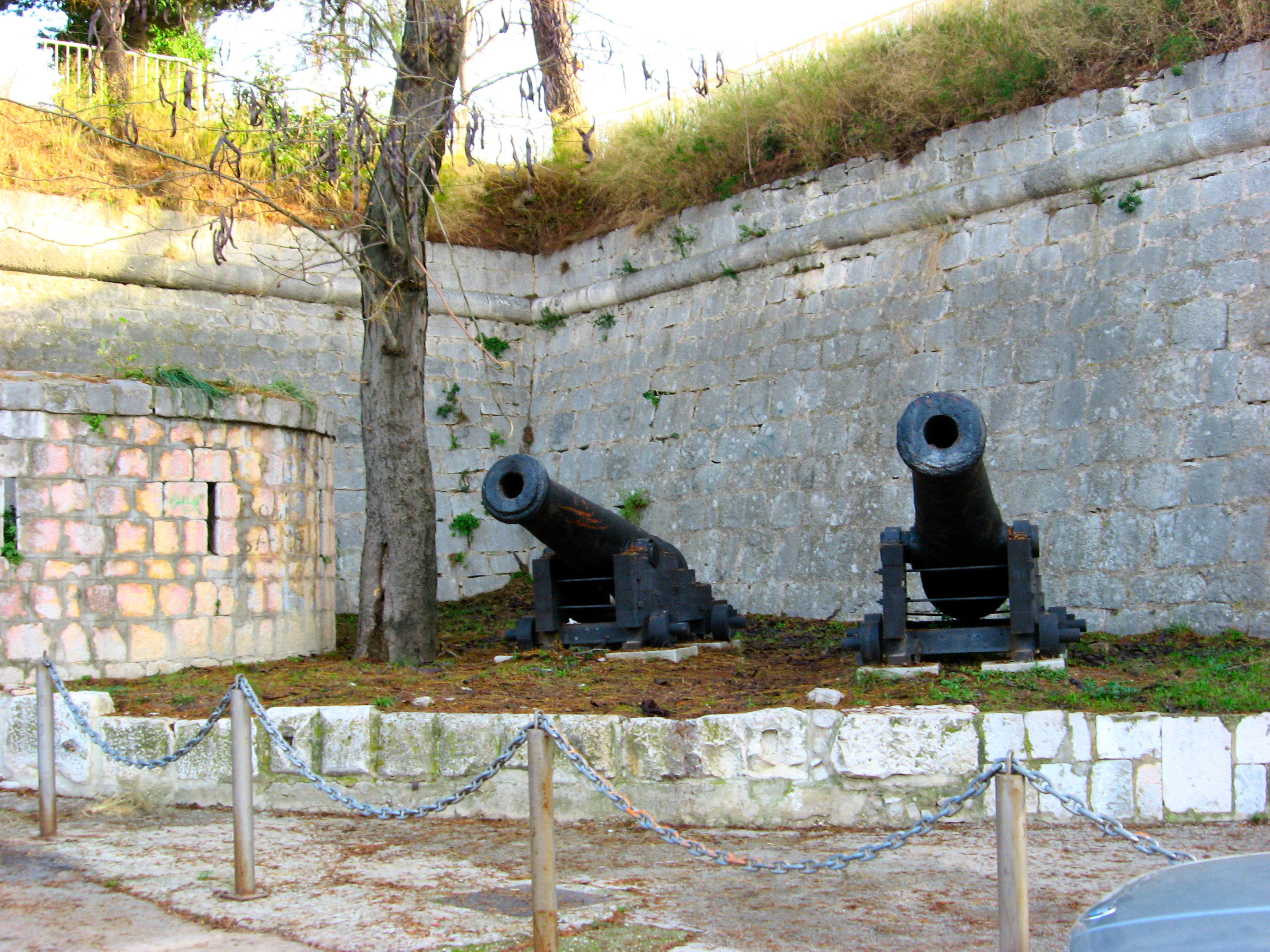 Fort Gripe, Split, Croatia.